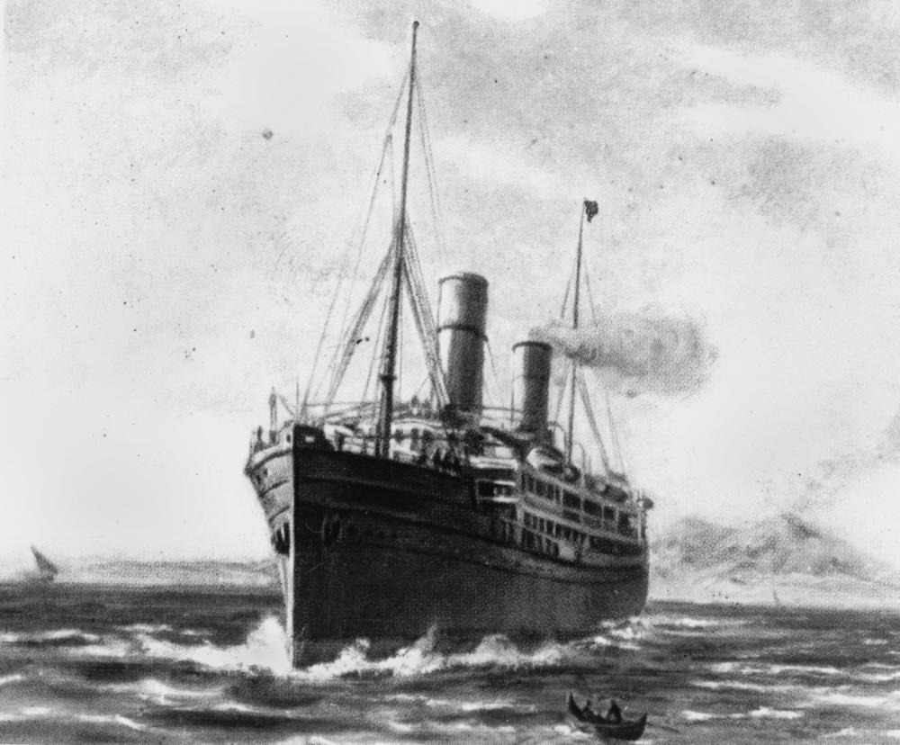 RMS Ophir, built 1891 and scrapped 1922